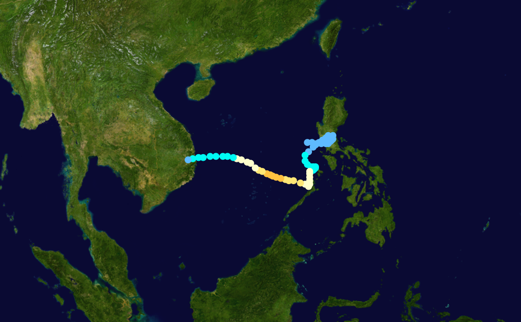 Typhoon Sarah 1979 track. Uses the color scheme from the Saffir-Simpson Hurricane Scale.